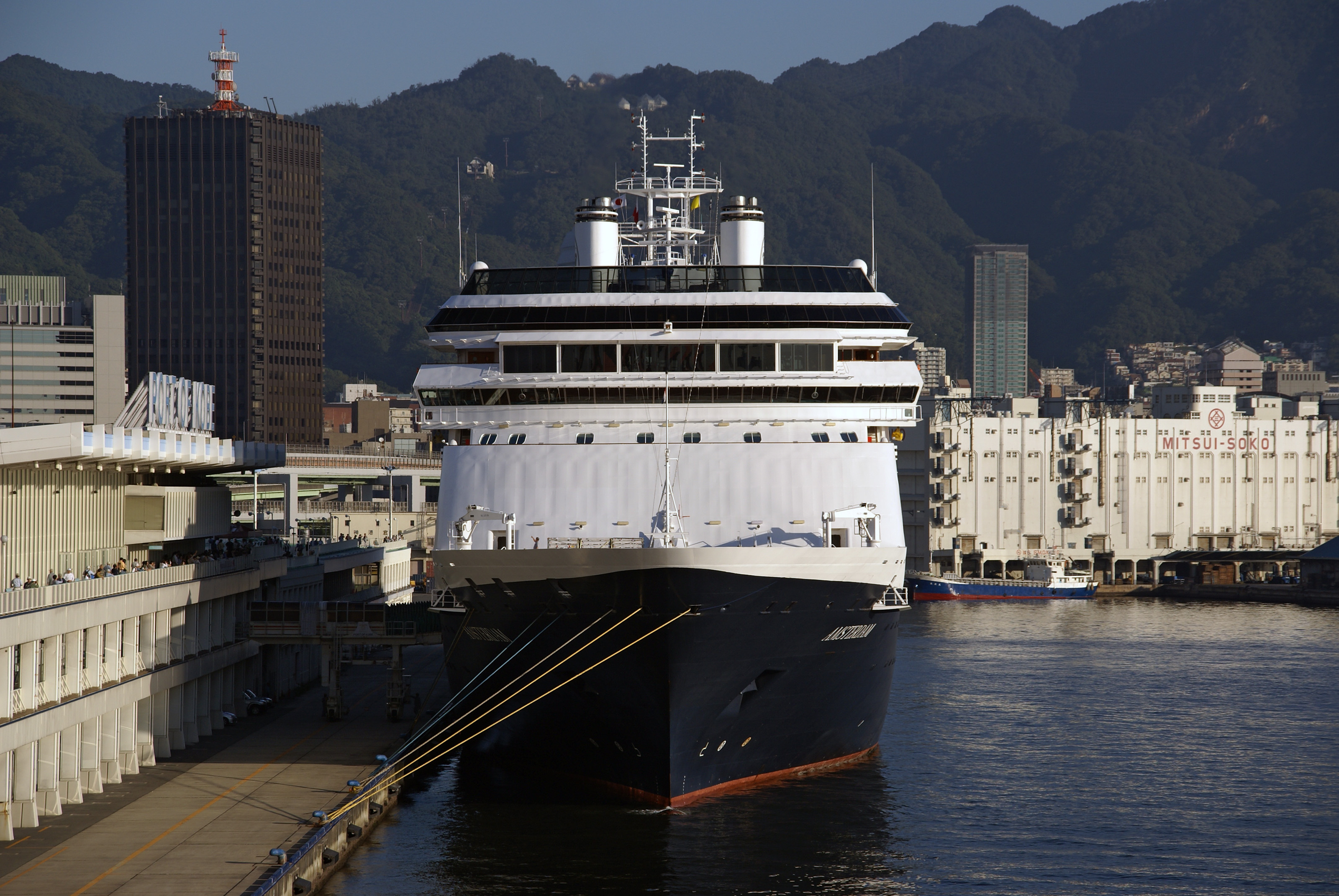 "Amsterdam" at "Kobe Port Terminal" of the Kobe harbor ( Kobe, Hyogo prefecture, Japan)